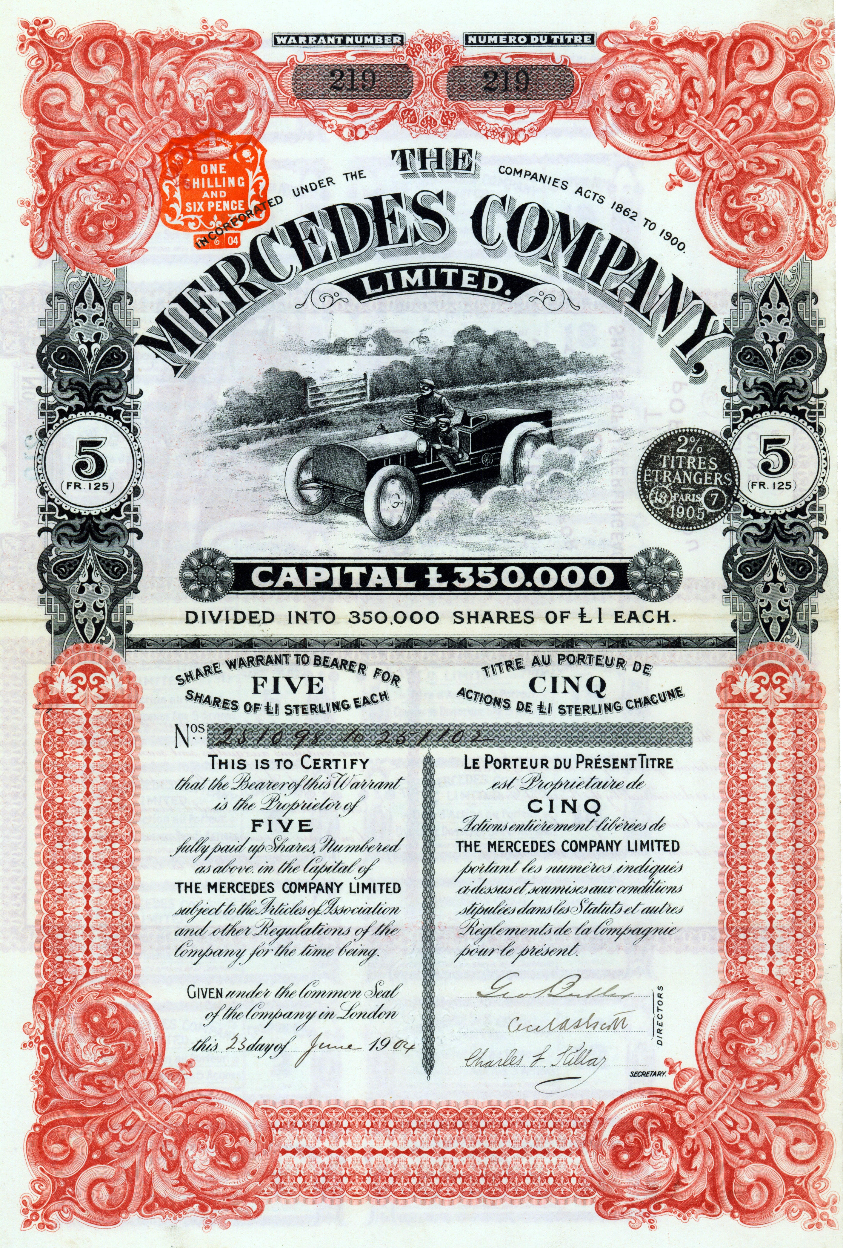 Share of the Mercedes Company Limited, issued 23. June 1904; The British company was founded in 1900. It was a sales company for Mercedes. It was the first company, which was allowed to sell cars in England and in other foreign countries. It was also allowed to have Mercedes in its name.